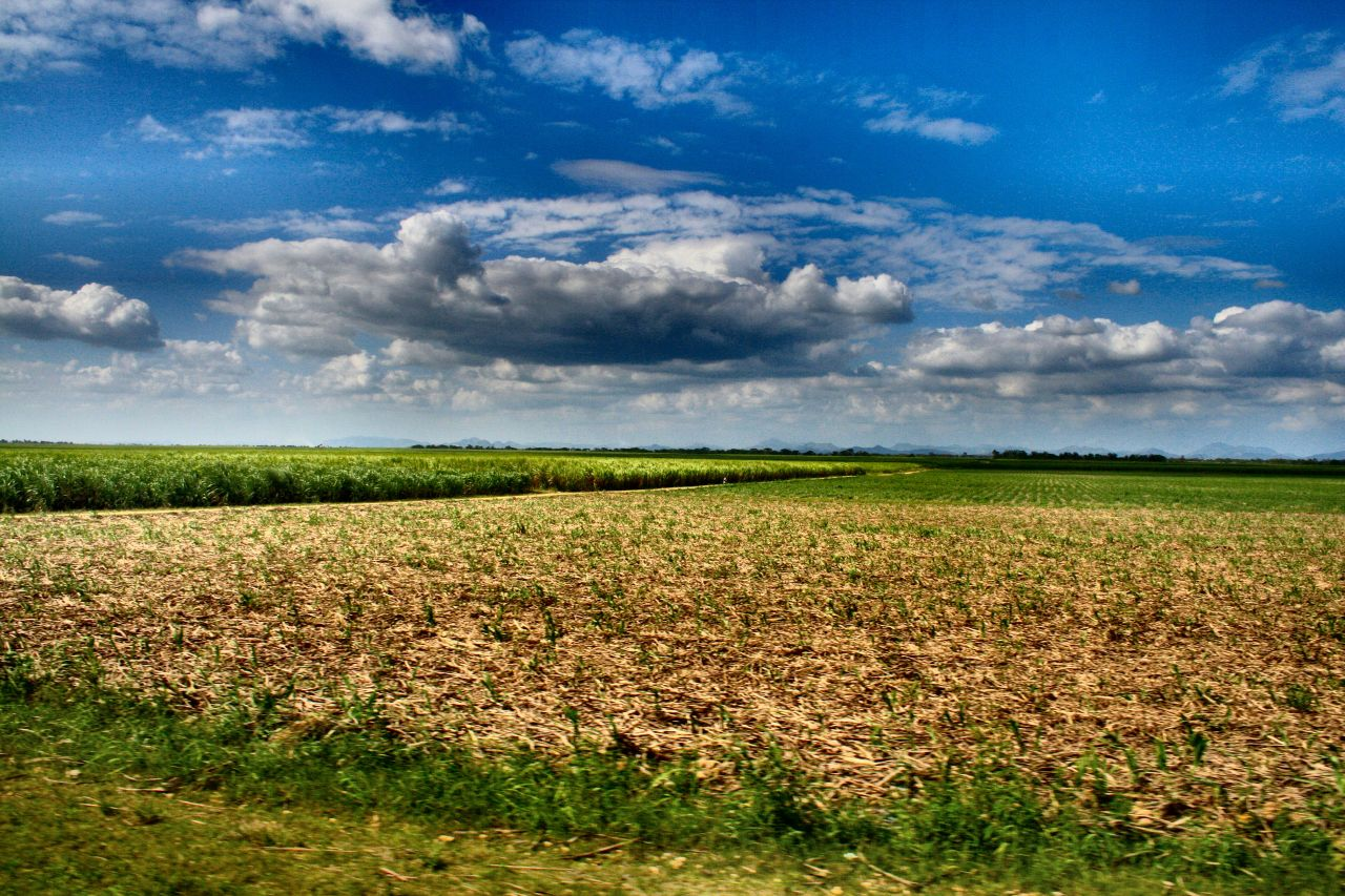 Plantation in the Dominican Republic